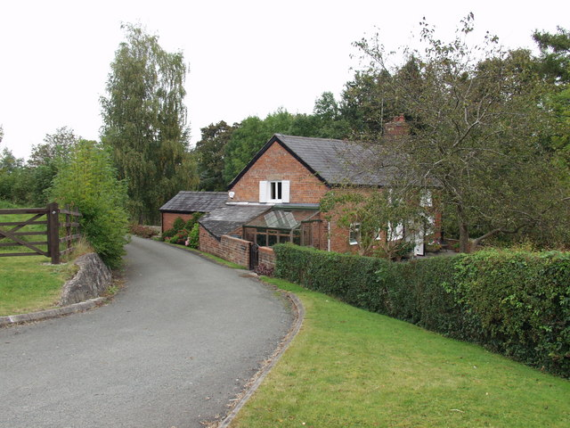 Station House Arddleen The GWR Oswestry to Welshpool railway used to run through here. The track has long gone but the platform and the station house are still here.